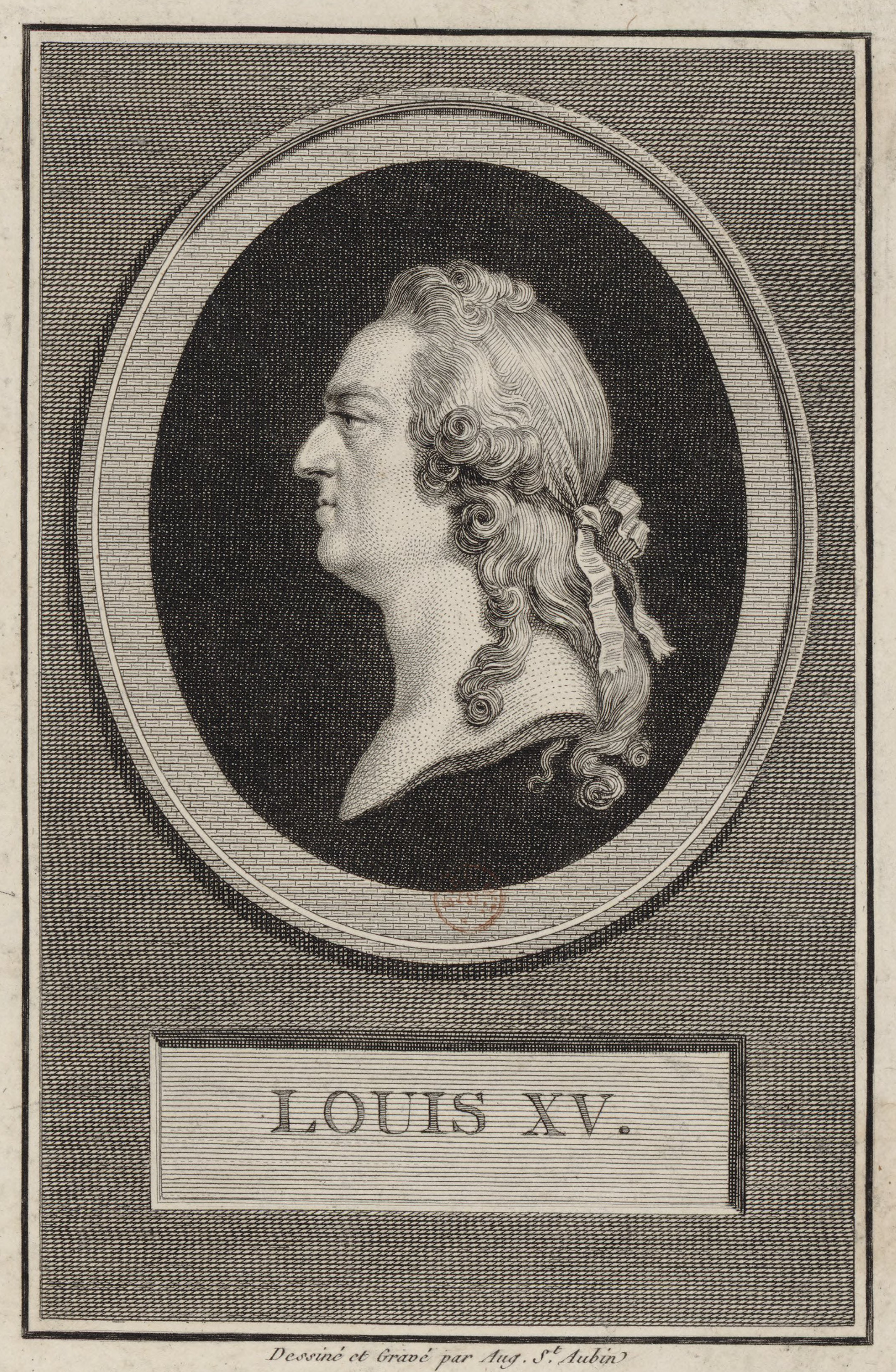 Profile portrait of Louis XV of France